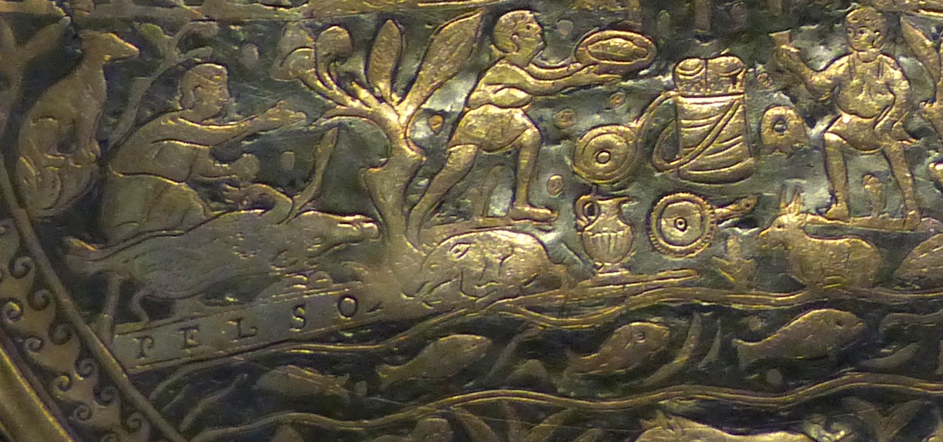 The Sevso or Seuso Treasure, large dish, 70 cm in diameter and weighing nearly 9 kg, which bears the latin inscription: Hec Sevso tibi durent per saecula multa Posteris ut prosint vascula digna tuis